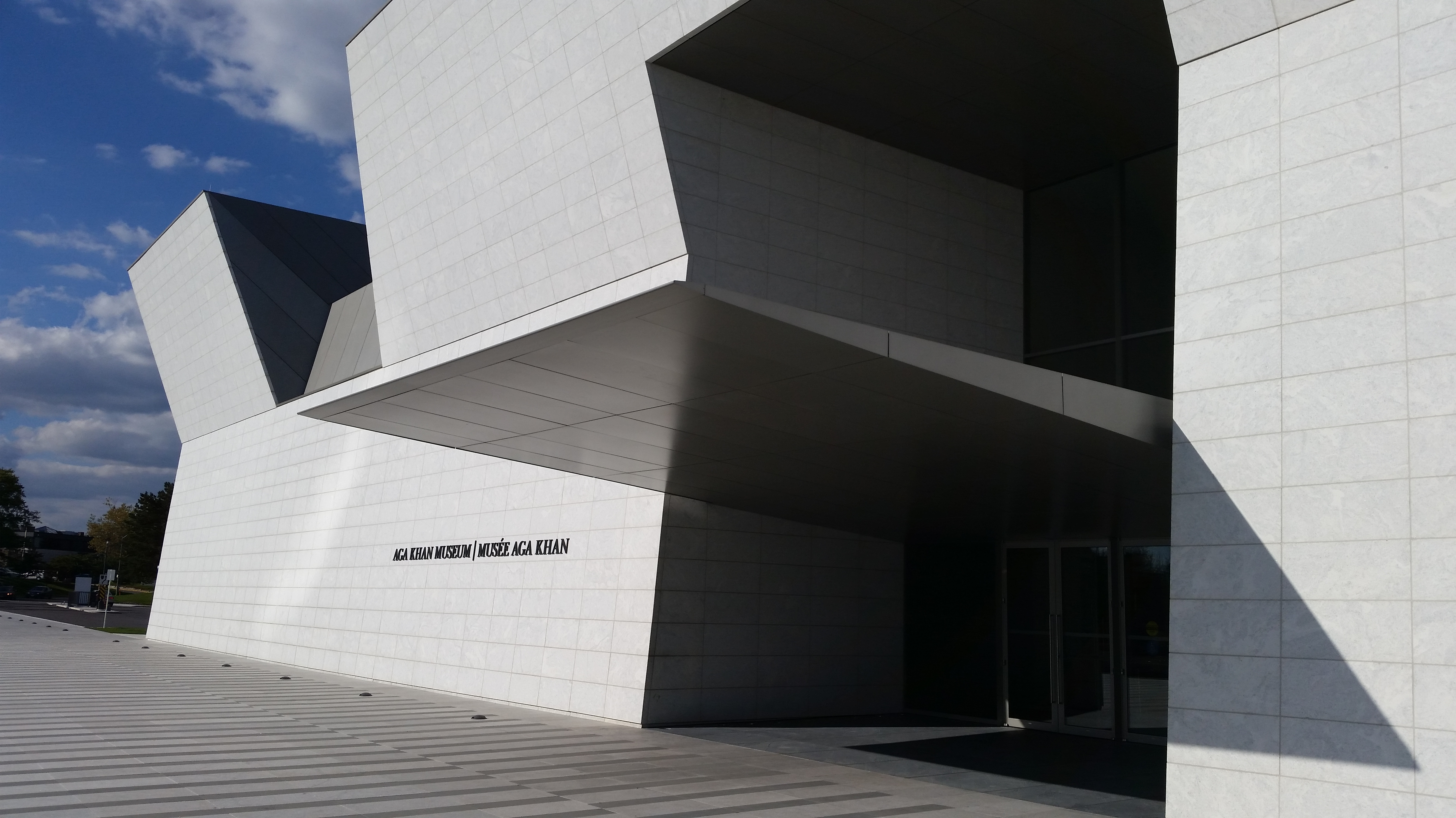 Aga Khan Museum in Toronto: White facade with dramatic entrance.